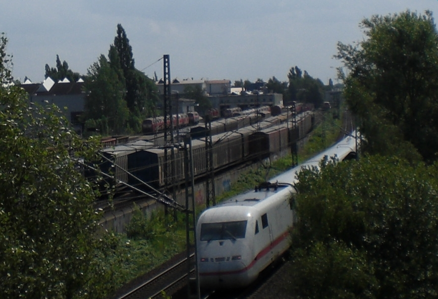 DB's repair works at Bremen-Sebaldsbrück